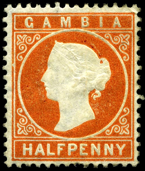 Gambia halfpence stamp of 1880